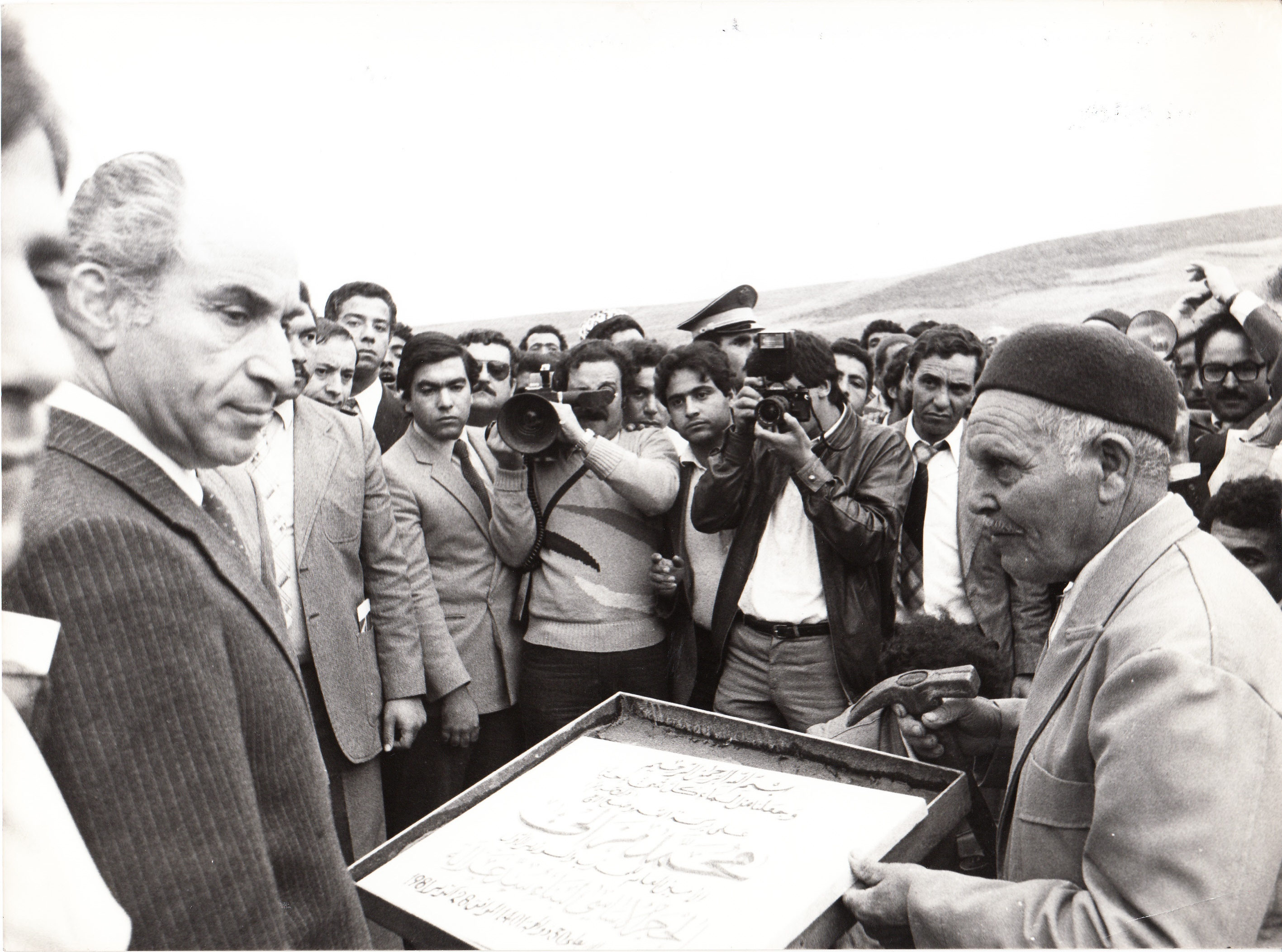 Mzali during 1981 general election